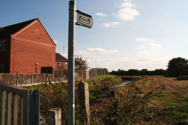 Footpath to Stewton Lane, and the Monks' Dyke